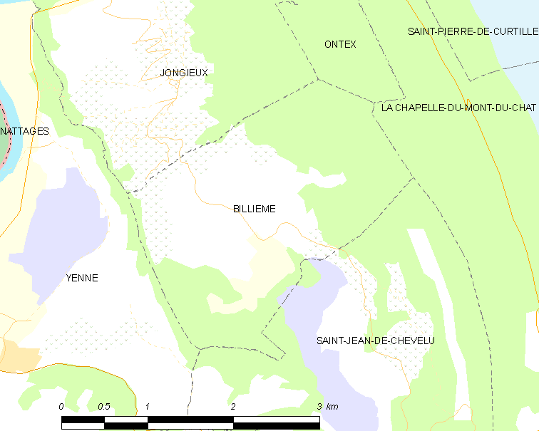 Map of French municipality